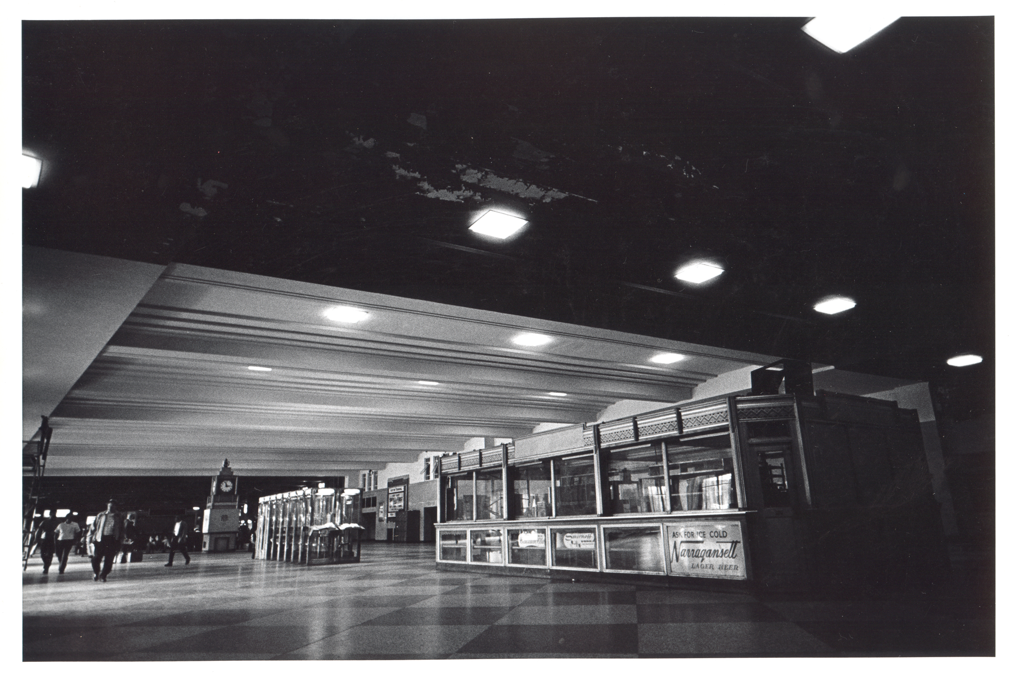 The main passenger concourse in South Station, Boston, in 1970